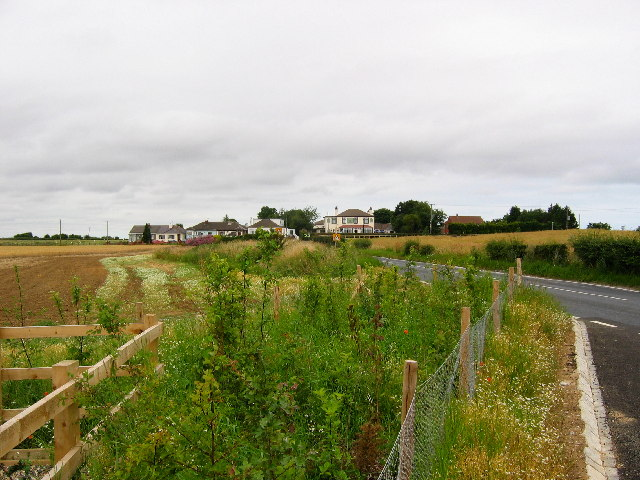 Great Hatfield, East Riding of Yorkshire, England.Great Hatfield sits in this and the adjacent square north. This area is all farmland.